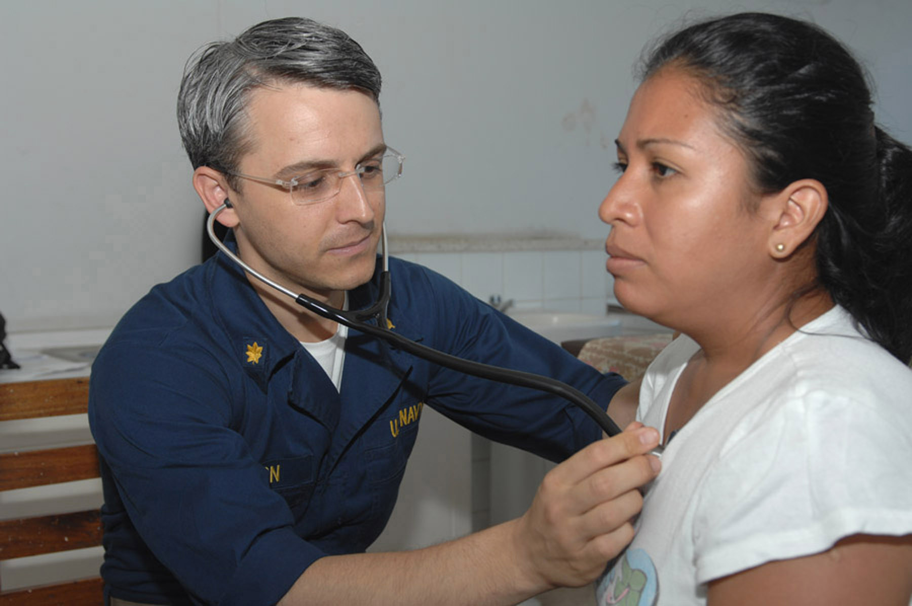 CORINTO, Nicaragua (July 13, 2009) Lieutenant Commander Todd Gleeson, embarked aboard the Military Sealift Command hospital ship USNS Comfort (T-AH 20), provides medical care to a Nicaraguan woman. The Comfort is in Nicaragua in support of Continuing Promise 2009. Continuing Promise is a four months humanitarian and civic assistance mission to Latin America and the Caribbean region. (U.S. Air Force photo by Senior Airman Jessica Snow/Released)